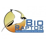 Bioraptors logo